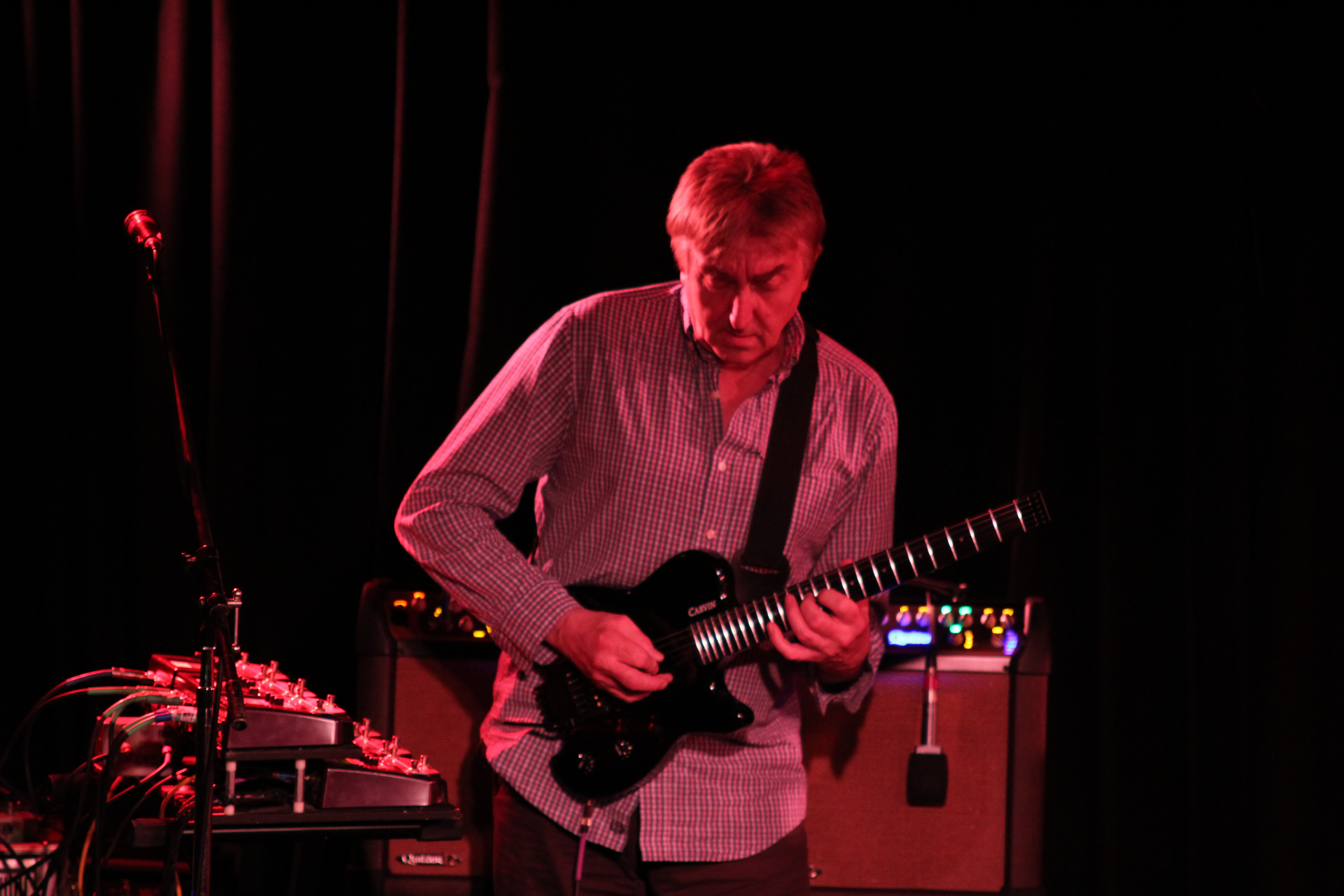 Holdsworth's rig from 2012 through 2017